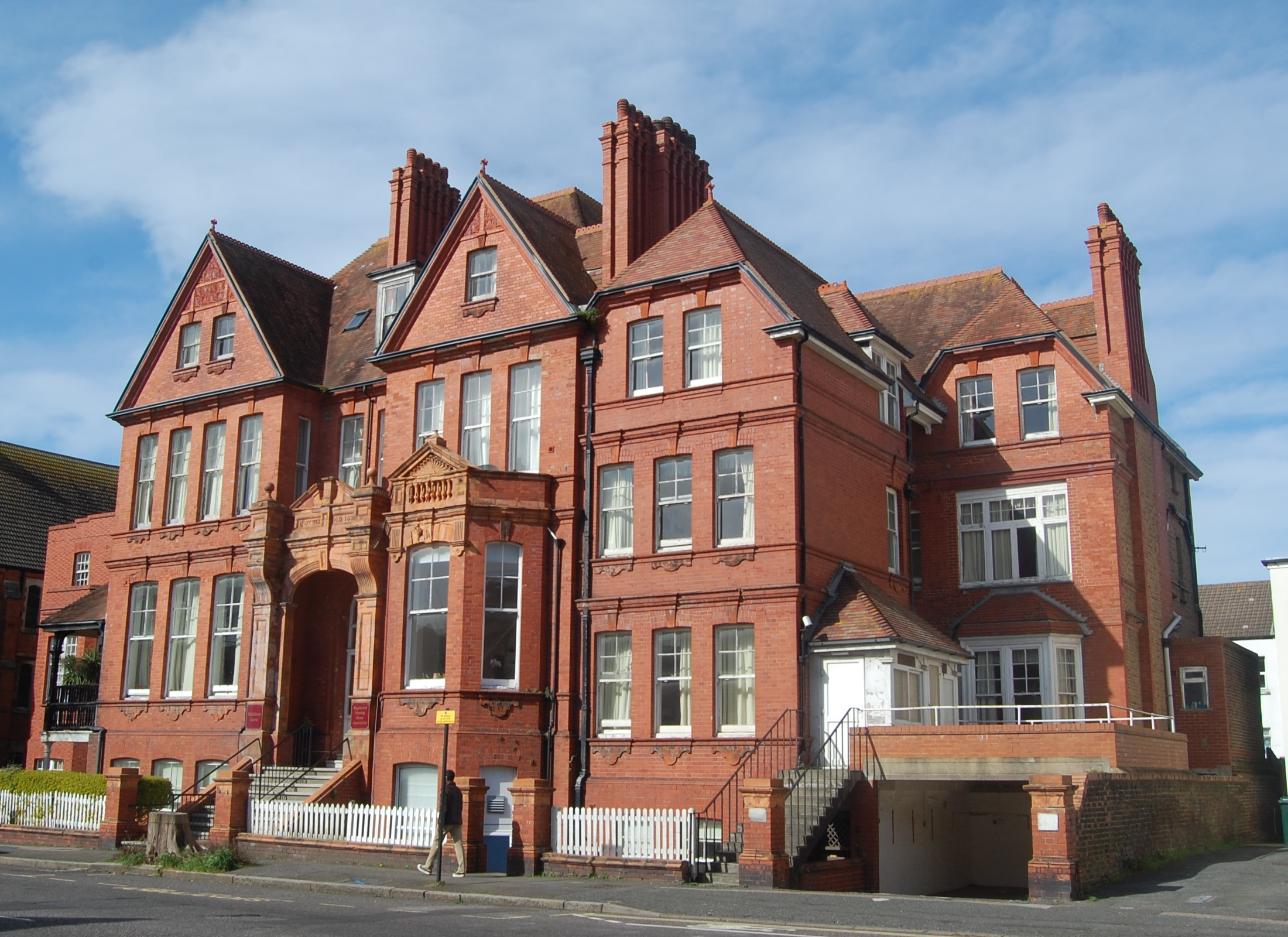 The former Police Seaside Convalescent Home, 11 Portland Road, Hove, City of Brighton and Hove, England. Now a nursing home. The building was designed by J.G. Gibbins and built by William Willett, and opened in July 1893.